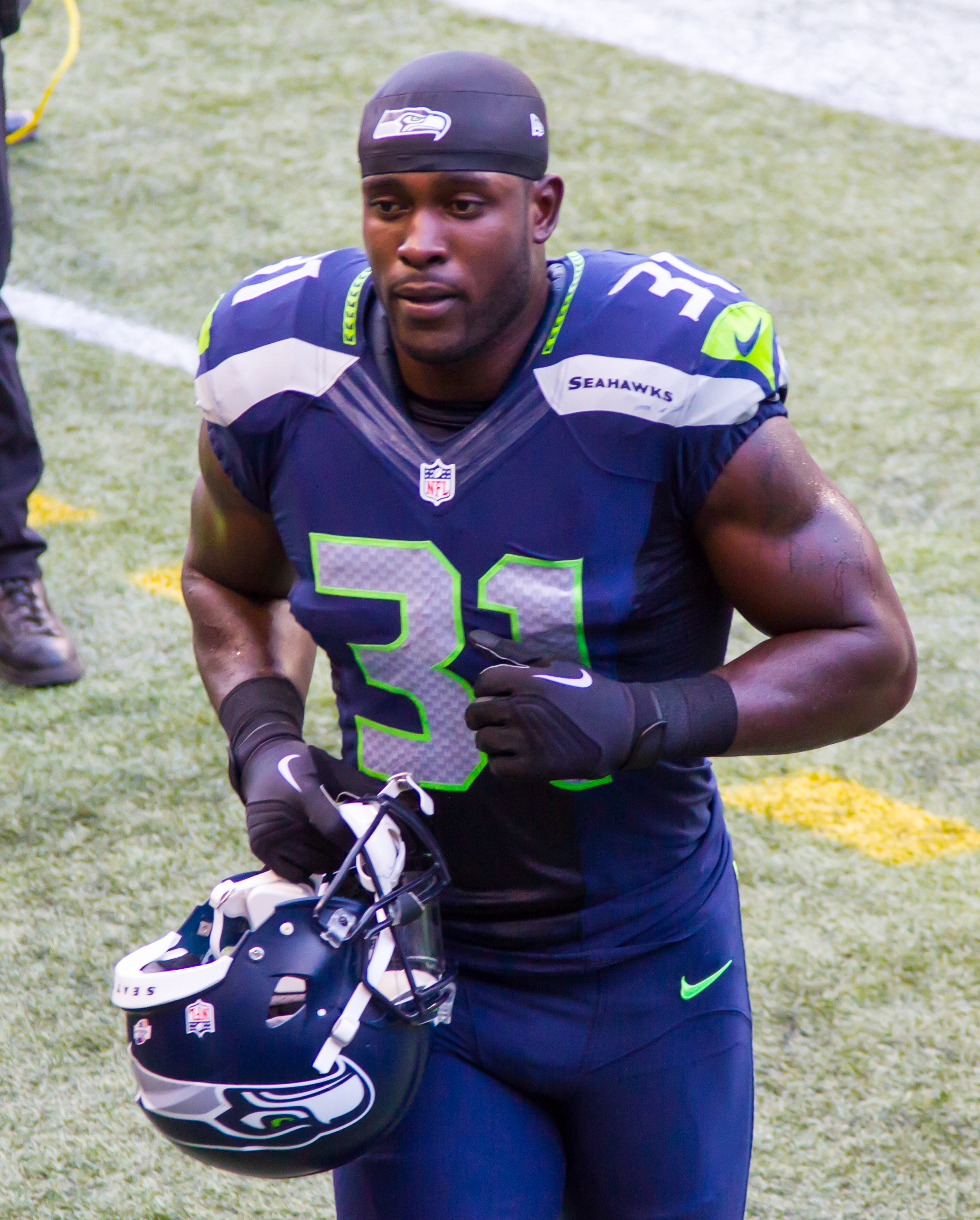 Kam Chancellor in 2014 preseason vs. Chicago Bears